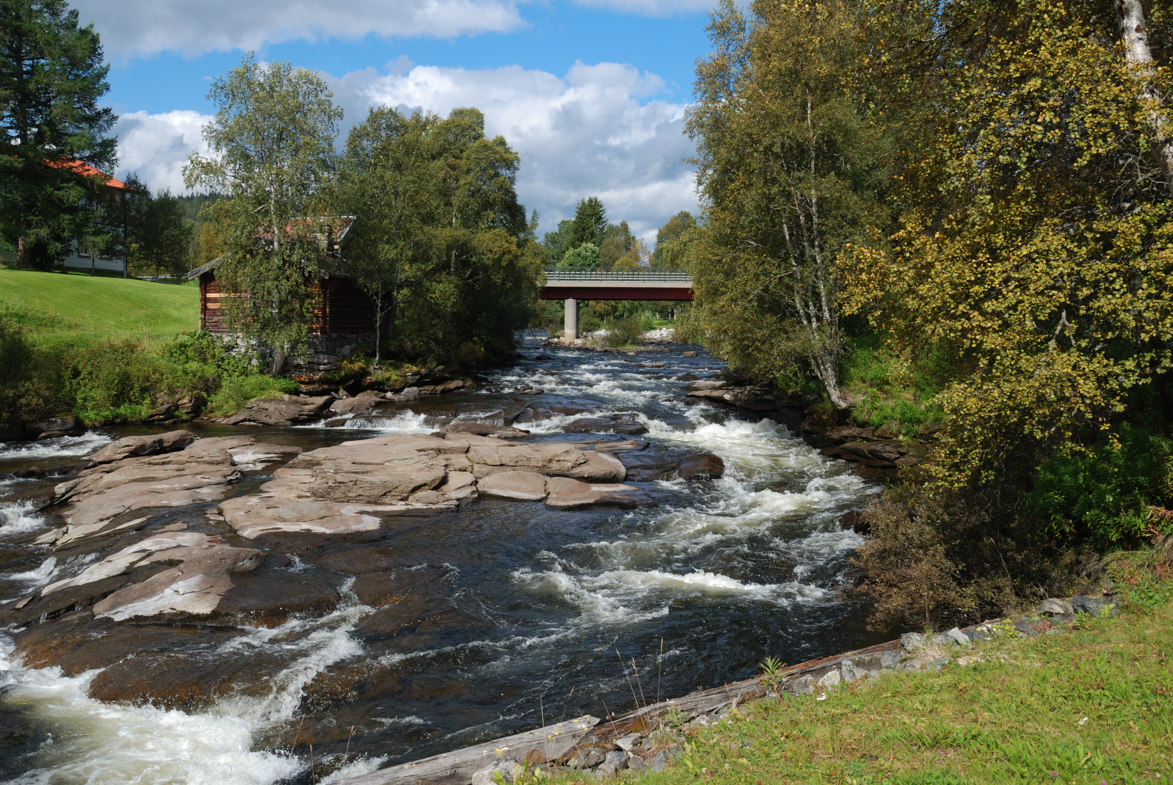 River Ljusnan, Ljusnedal.